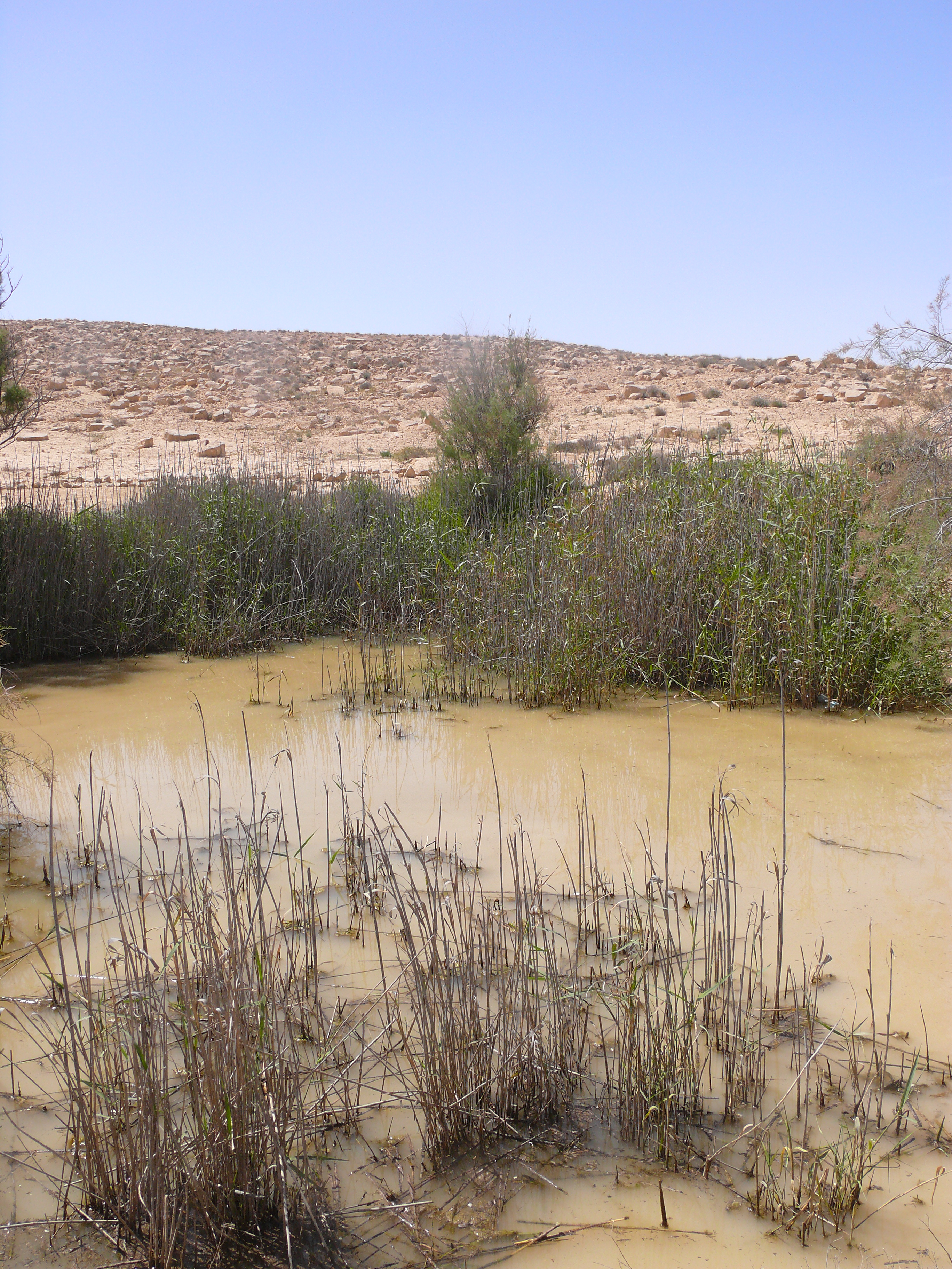 The “Large cistern” full of water at Lotz Cisterns[1] (Lotz Pits; Hebrew: בורות לוץ, Borot Lotz) archaeological site, Negev Mountains, Israel